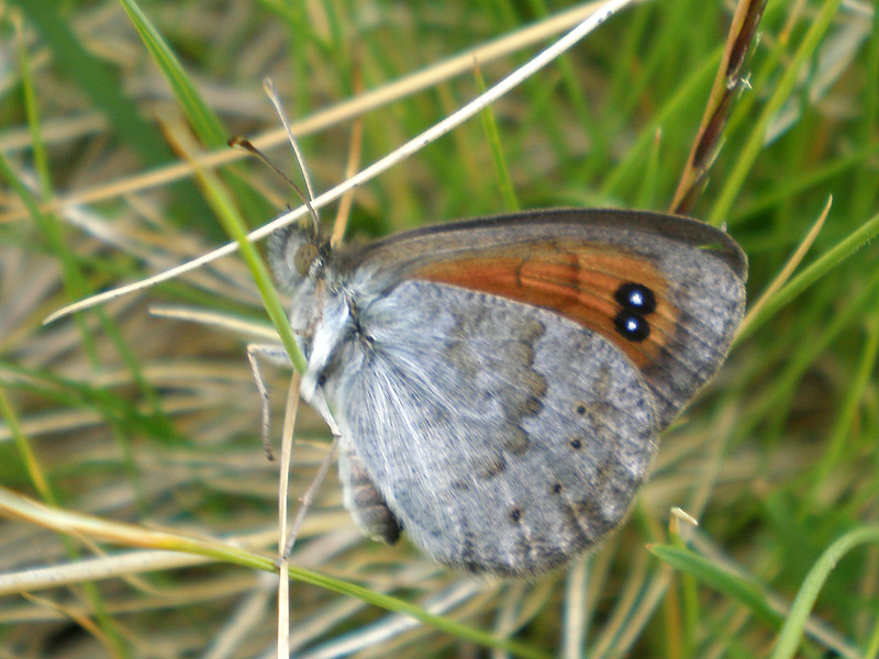 Near El Tarter, Canillo, Andorra. - August 16, 2007